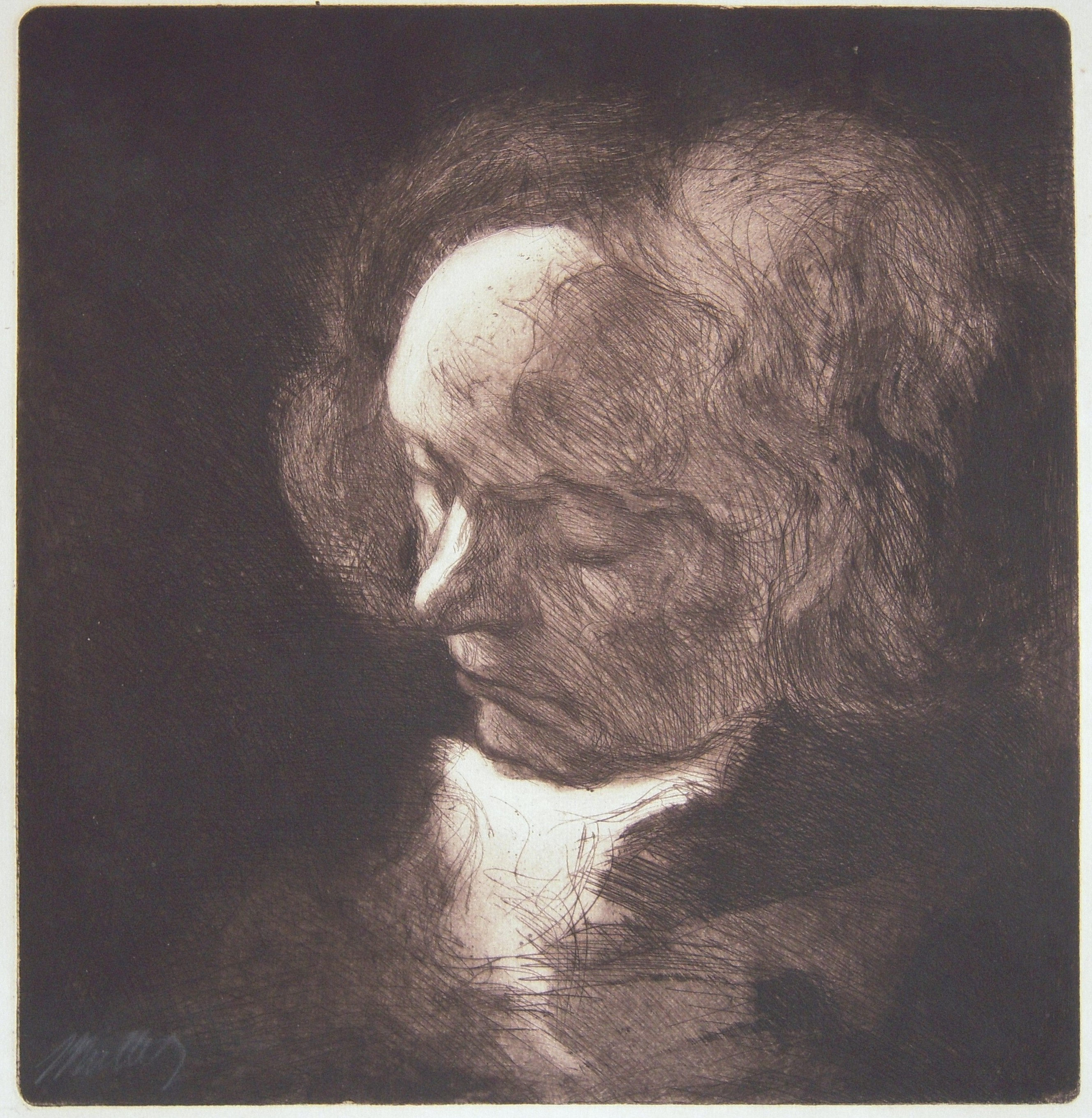 Beethoven, one of the 4 portraits of musicians (Bach, Gluck, Beethoven, Wagner. Koehl E98 to E101) edited in a portfolio by Insel Verlag in 1900